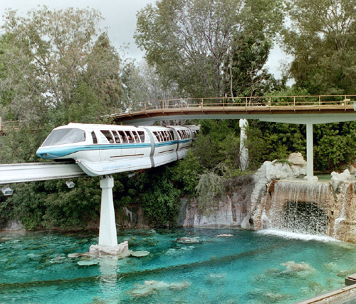 Disneyland monorail over mermaid lagoon, September 2002.